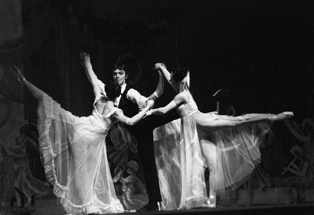 “Moscow State Ballet Theater of USSR”. Stanislav Isayev as Young Man reading a book and Natalya Stavro and Yelena Tsibulevskaya as Ladies in a scene from the vocal and choreographic play 'Pushkin. Reflections on Poet' staged at the Moscow State Ballet Theater of the USSR, now the Kasatkina and Vasilyev State Classical Ballet Theater.